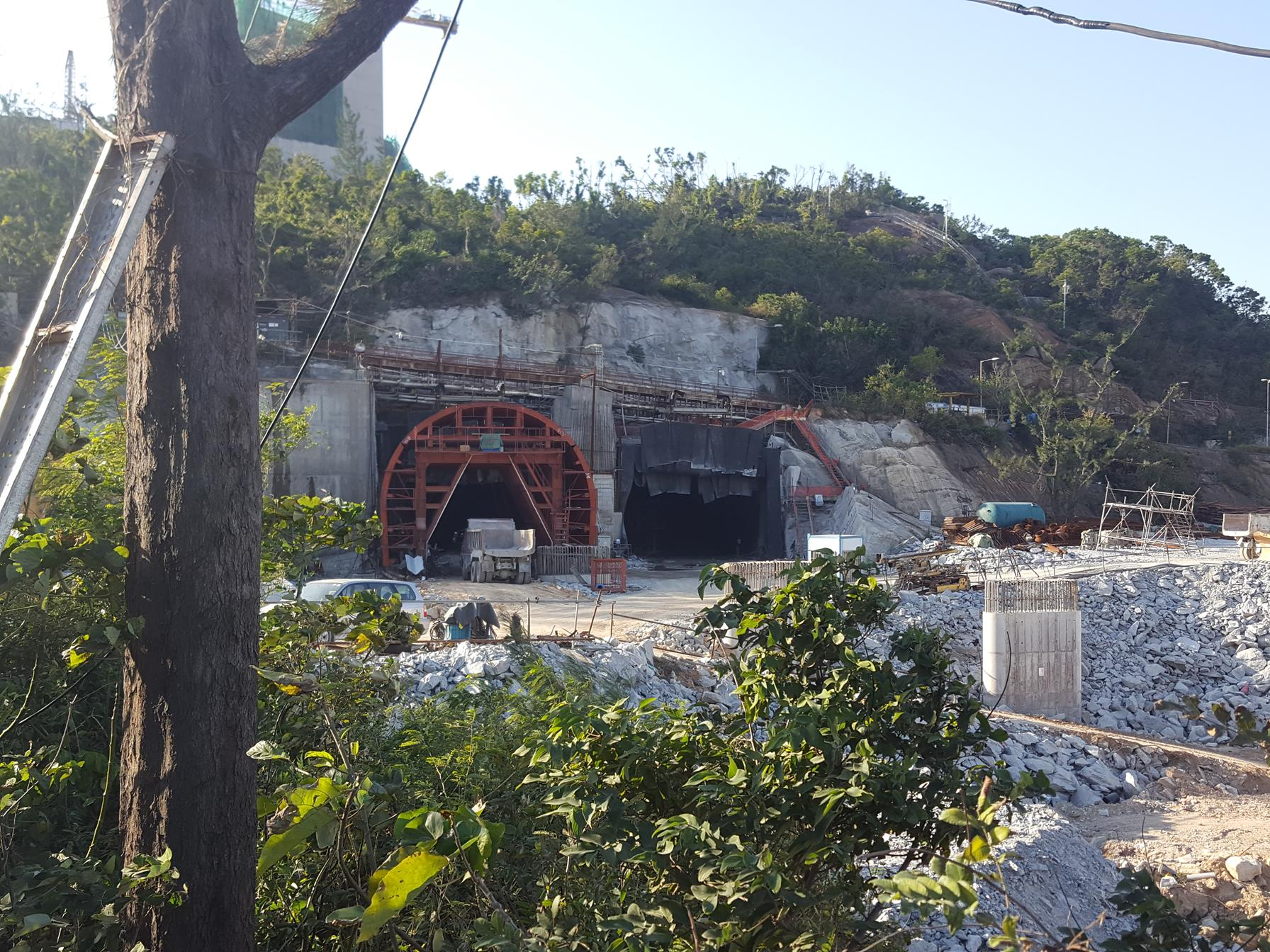 South Entrance of Ká Hó Tunnel